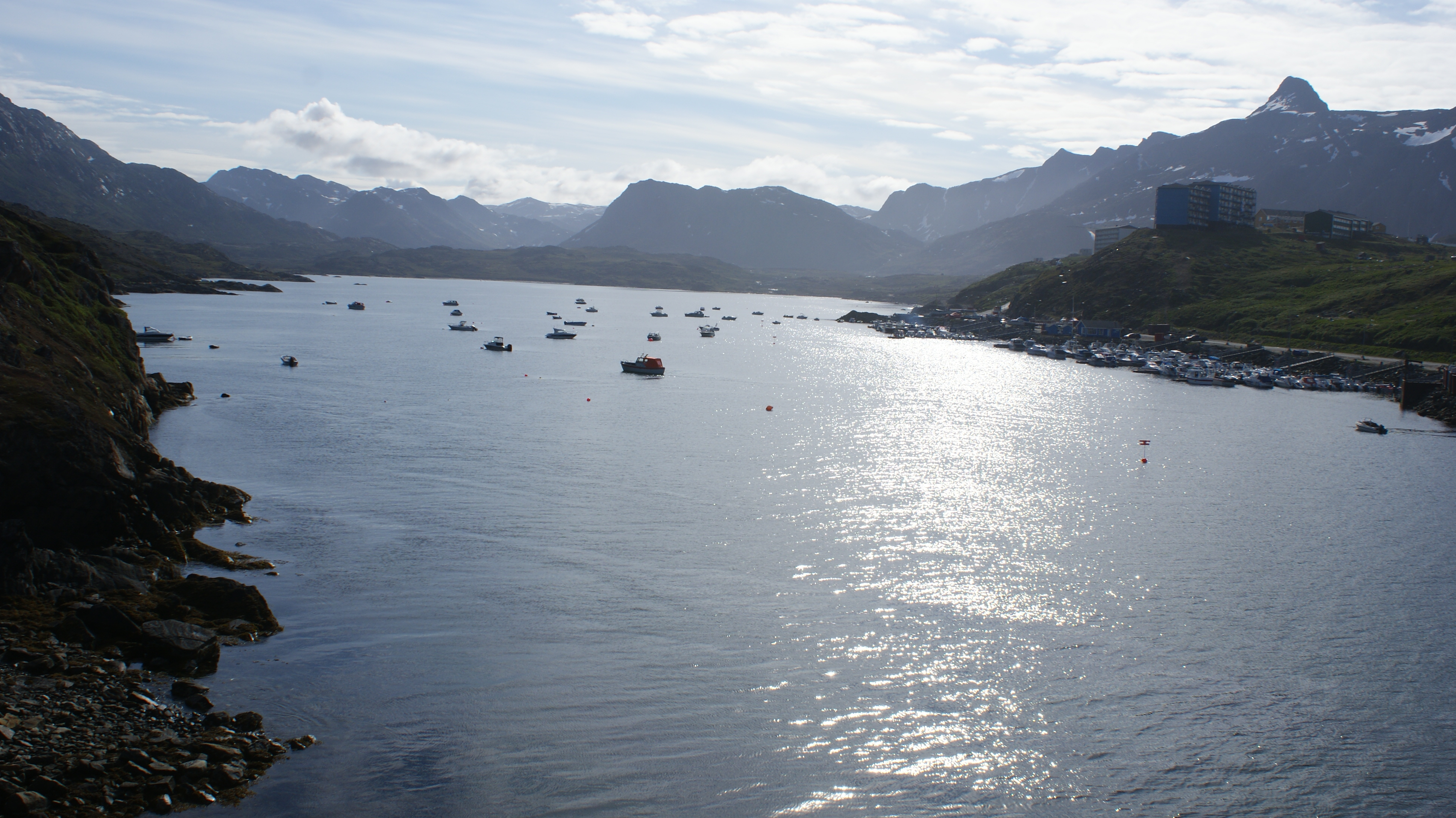 Kangerluarsunnguaq Bay north of Sisimiut, Greenland. Photographed from the bridge over its central part, with a view to the east towards Sisimiut valley. The summit of Nasaasaaq is visible on the far right.